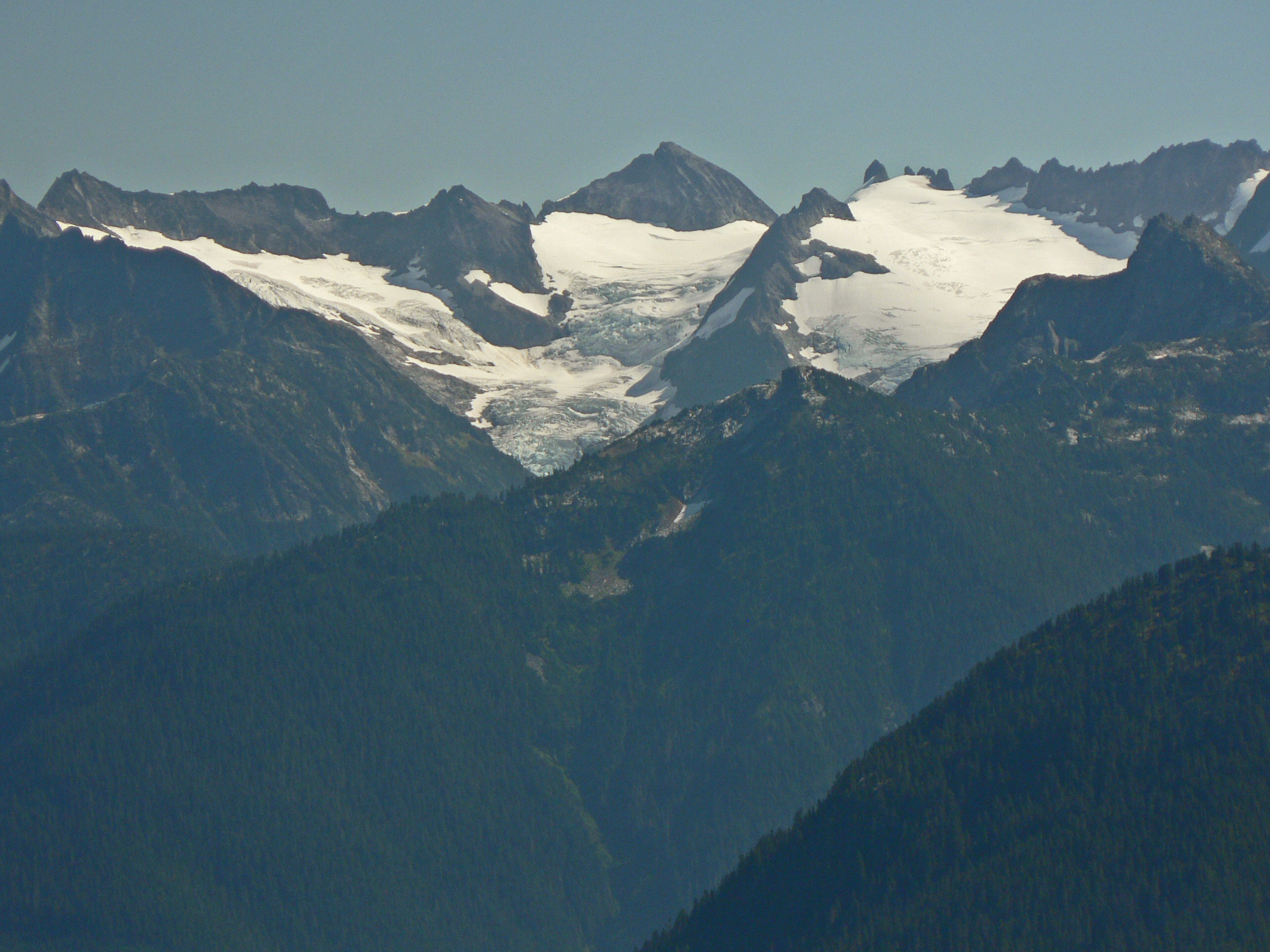 Three-lobed McAllister Glacier, the lower glacier; Klawatti Peak (center skyline), Tepeh Towers (right skyline); the north (left) lobe of the McAllister Glacier is sometimes called Austera Glacier after Austera Peak (left skyline), e.g., Cascade Alpine Guide.